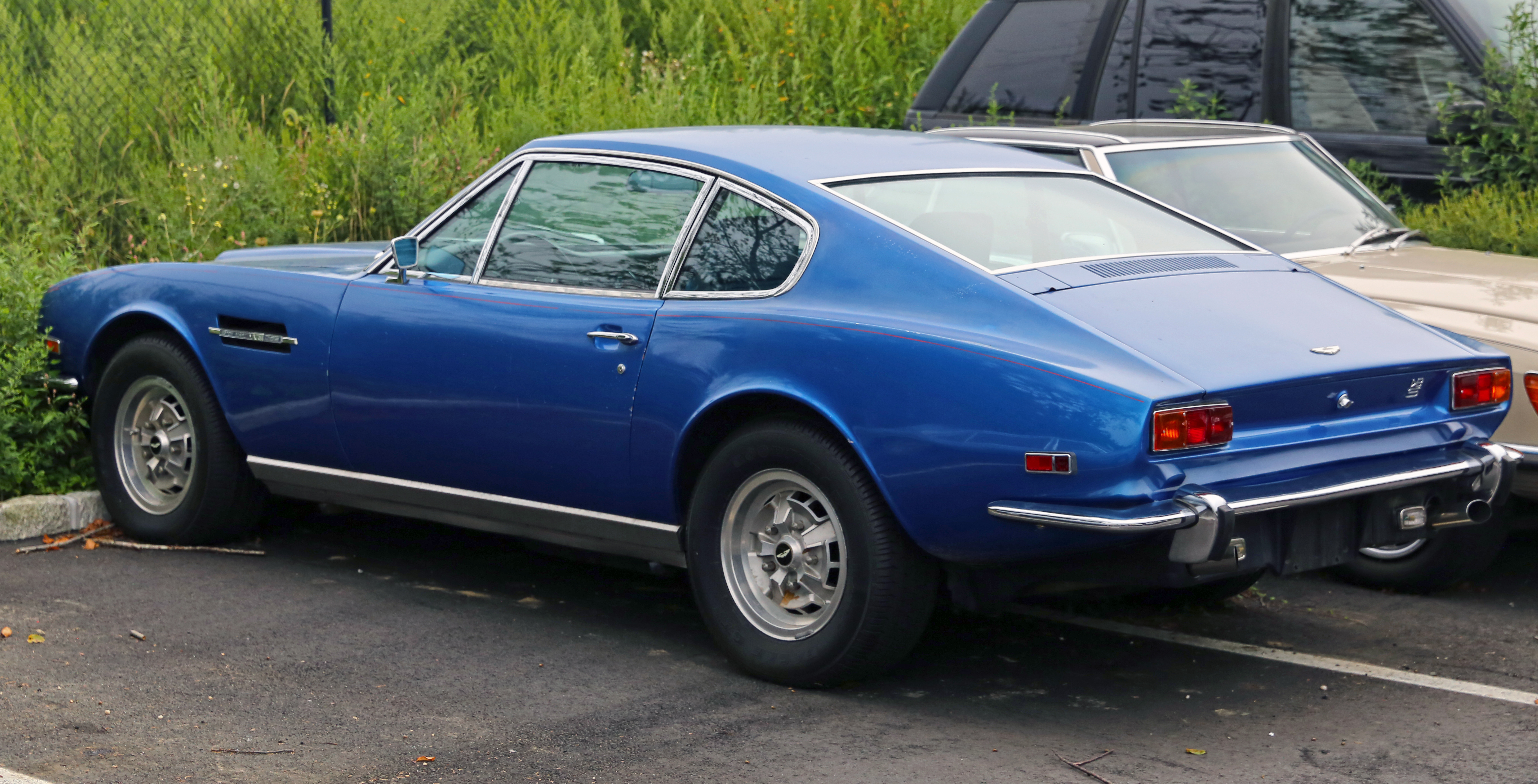 An Aston Martin DBS V8, LHD model, rear left ¾ view. This picture clearly shows the vented panel mounted between the lower edge of the rear window and the leading edge of the bootlid, a style which was retained until the 1973 Series 3 AM V8.